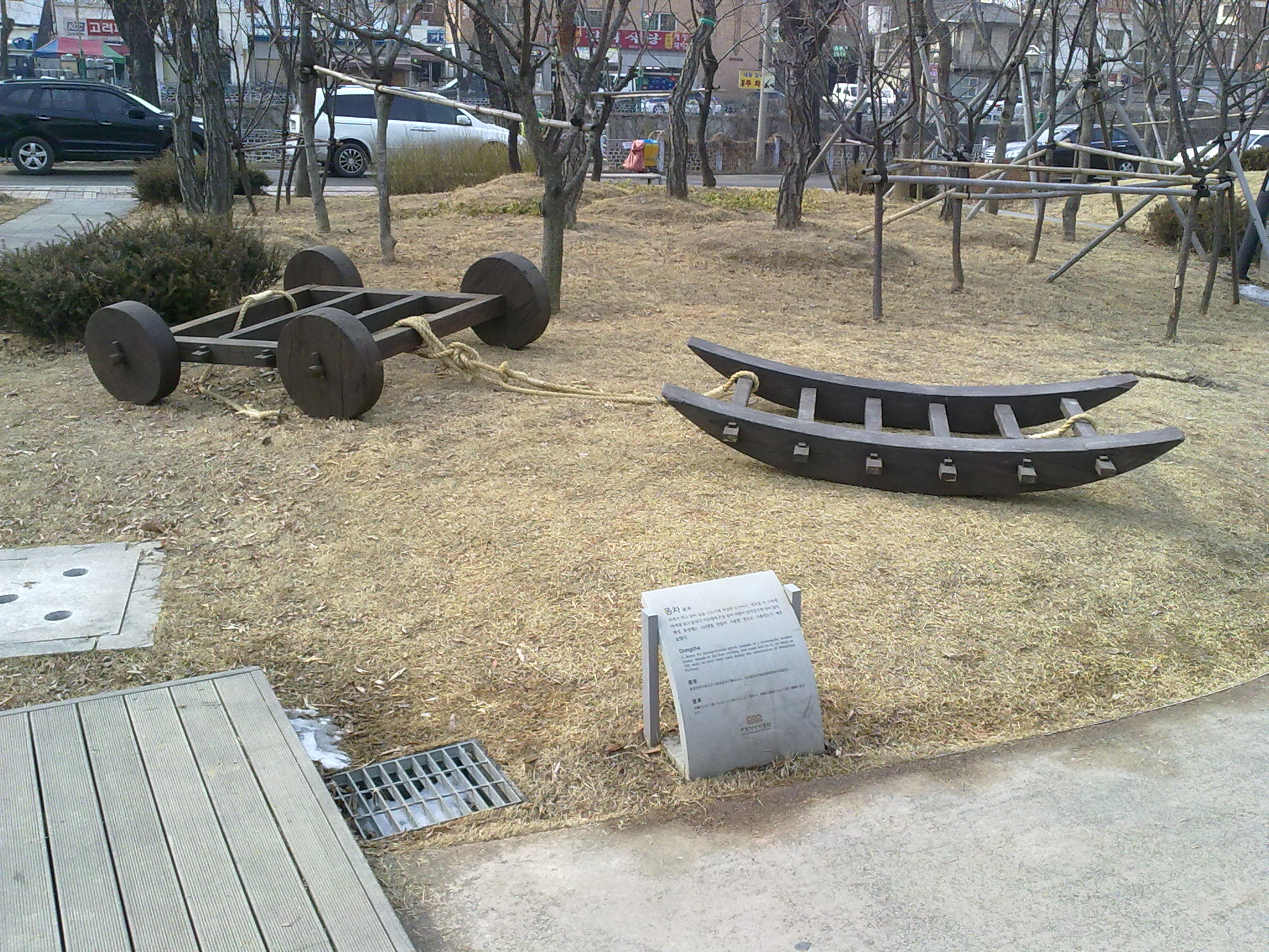 in front of Suwon Hwaseong Museum